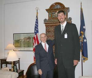 Nicholas F. Taubman (left), the U.S. Ambassador to Romania, with basketball player Gheorghe Mureşan, at the American Embassy in Bucharest.